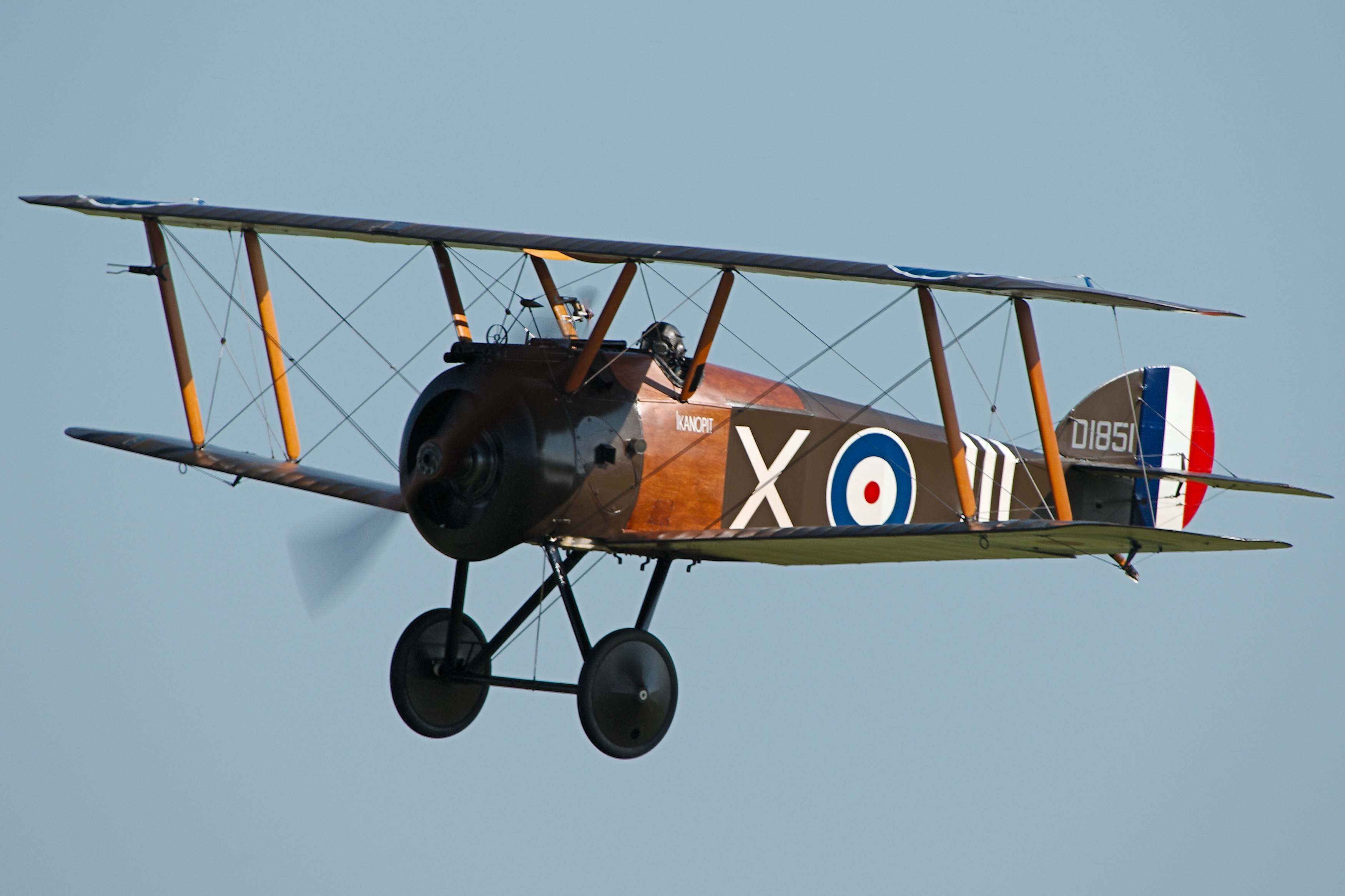 Sopwith Camel - Season Premiere Airshow 2018